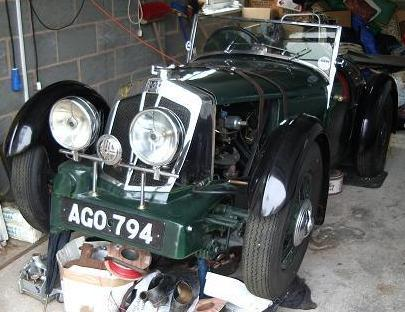 Photo of Vale Special previously belonging to Allan Gaspar, in the process of being restored by David Cox. Photo taken 18 August 2005.